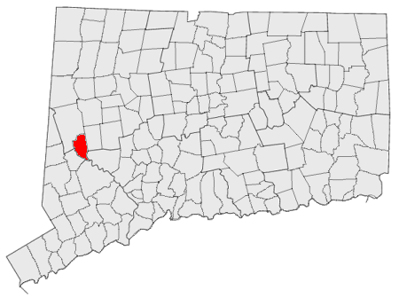 Locator map for Bridgewater, Connecticut